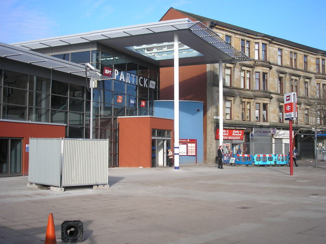 The new façade of Partick railway station in Glasgow, Scotland after a lengthy renovation.